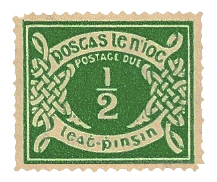 Postage due stamp, Ireland, 1940: 1/2p.